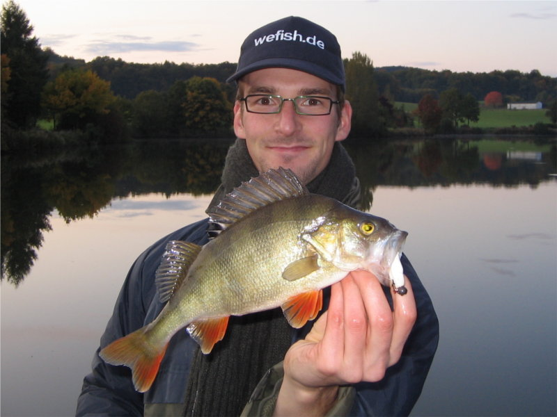 Fisherman with European perch (Perca fluviatilis) at Nethestausee lake, Neuenheerse.